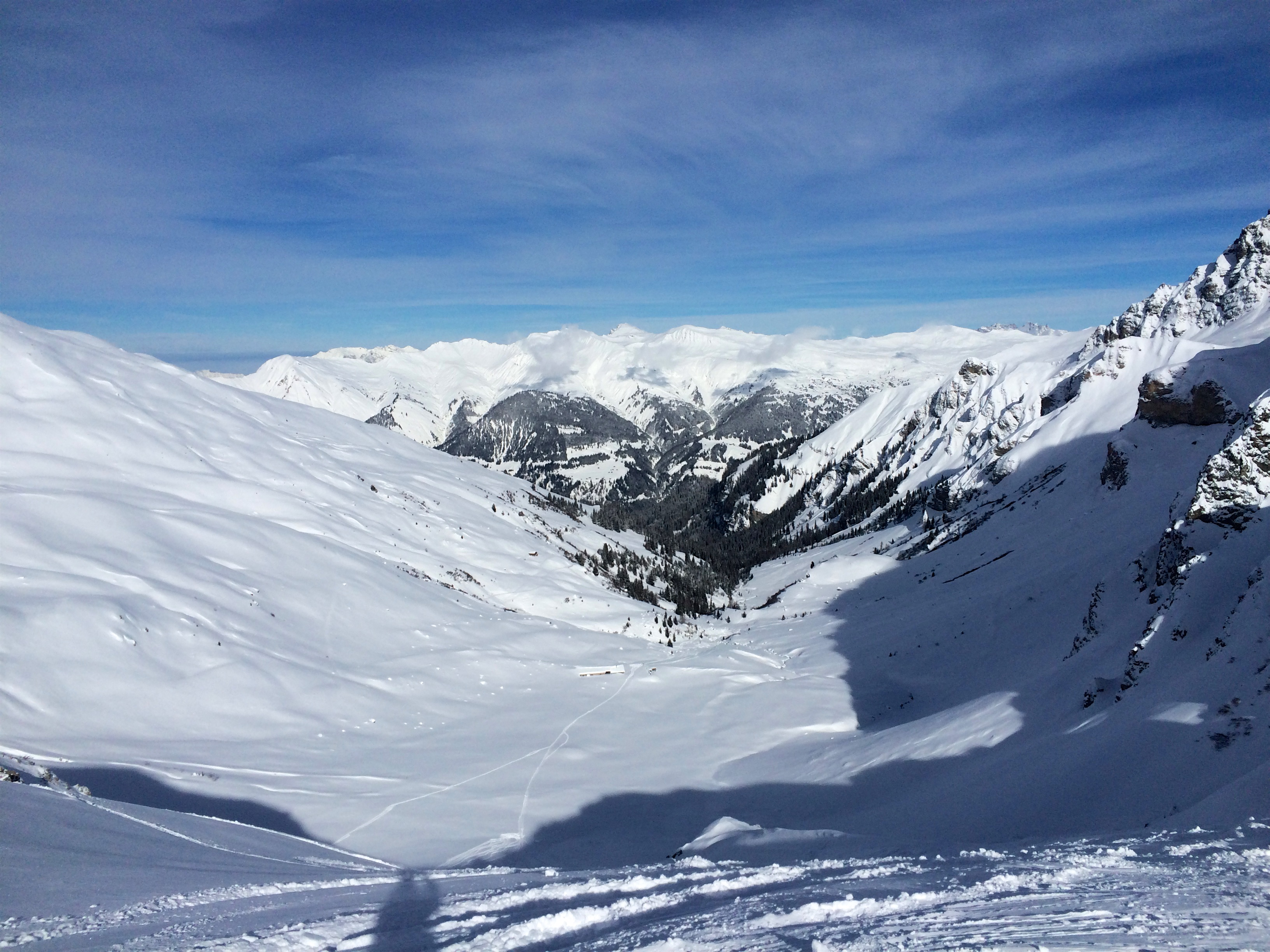 Freeride skiing at Urdental between Arosa, Lenzerheide and Tschiertschen/Switzerland